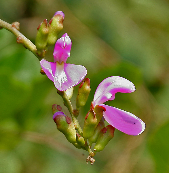 Bay bean or Sagar-abai Canavalia lineata in Kawal Wildlife Sanctuary, Andhra Pradesh, India.